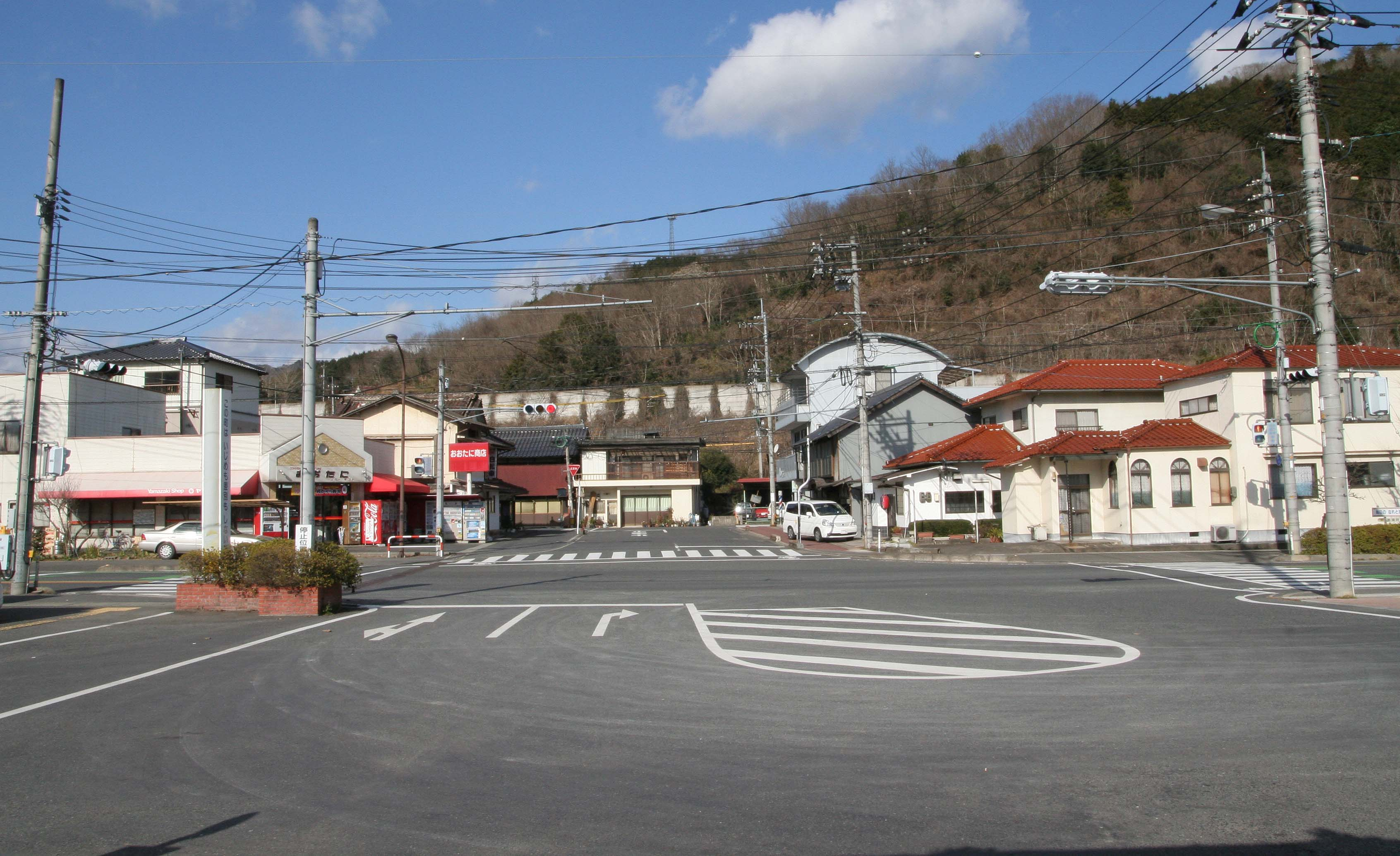 In front of Mimasaka Ochiai Station